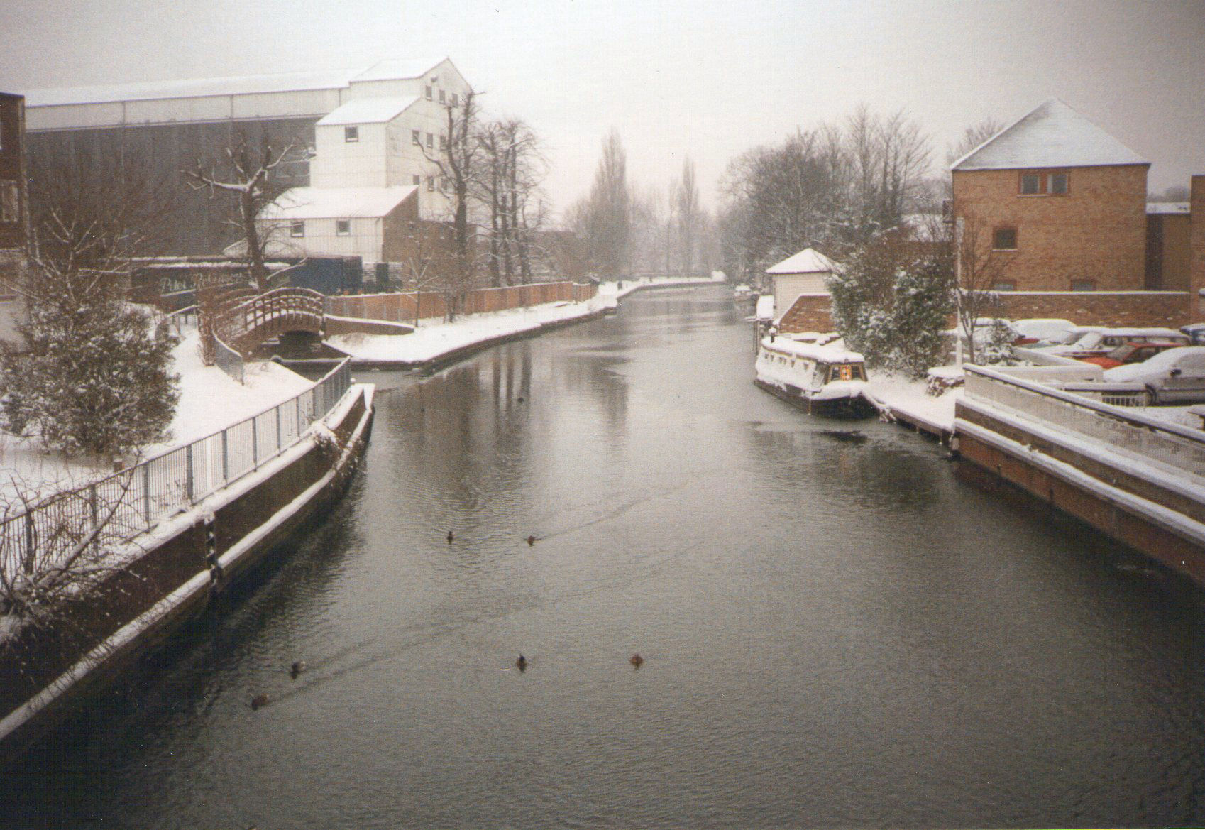 Snow covers the town of Ware, Hertfordshire in the East of England, during the cold winter of 1990-1991.